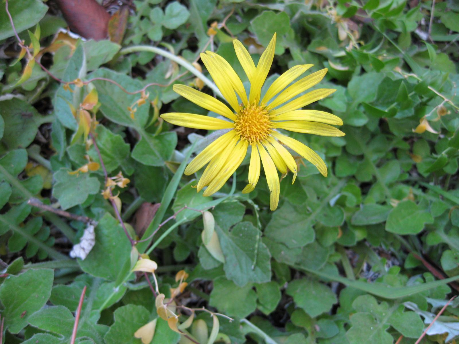 Calendula maritima - Sea Marigold, as groundcover. Photographed Mildred E. Mathias Botanical Garden at UCLA (Los Angeles, California) in November